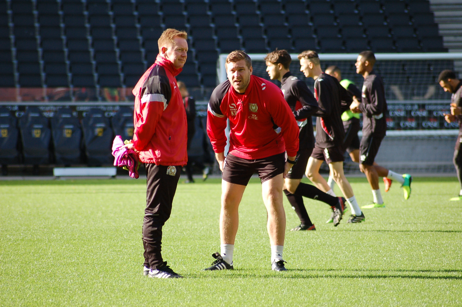 Gary Waddock and Karl Robinson during MK Dons open training on 29 October 2013.